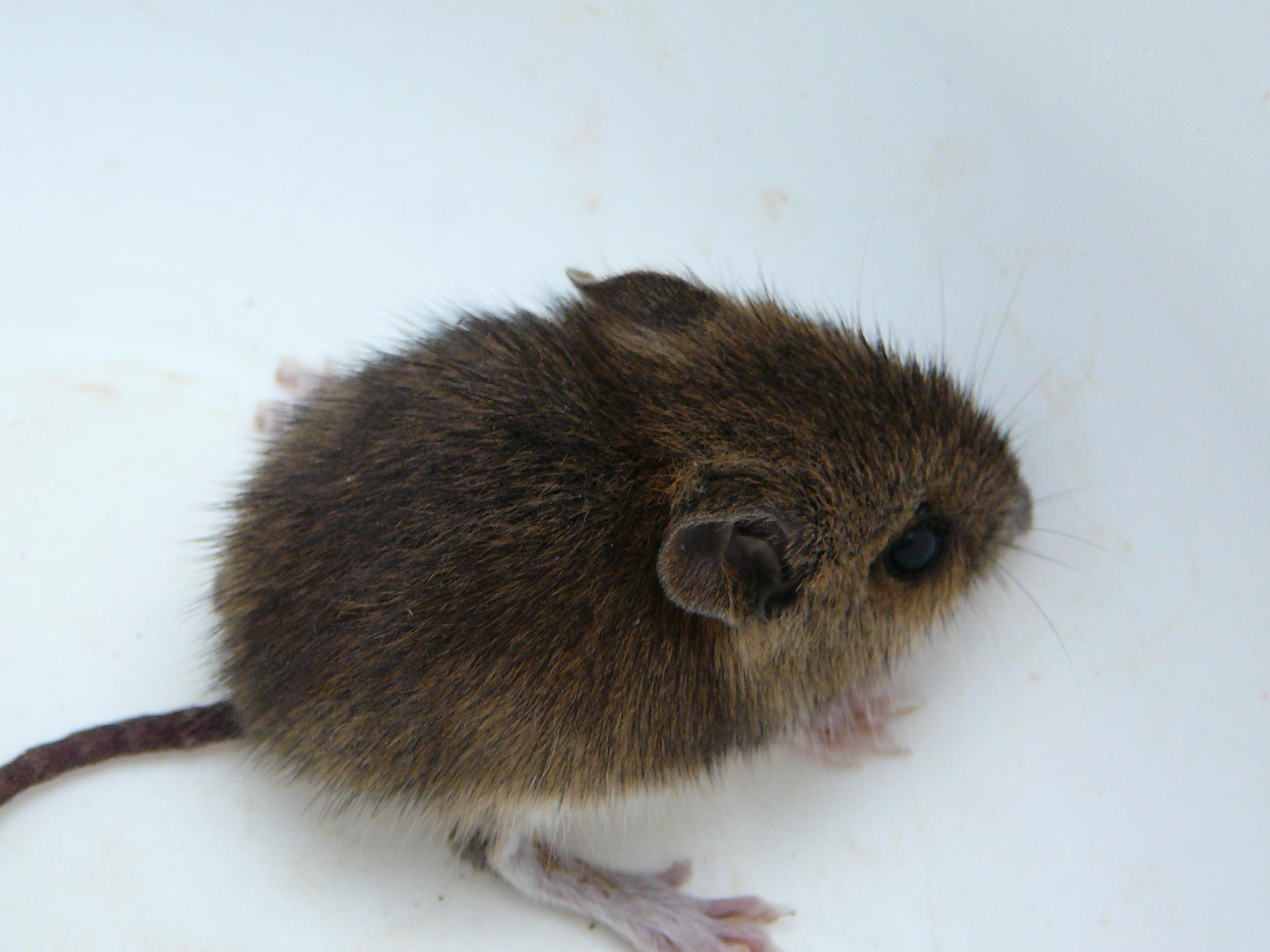 young mouse